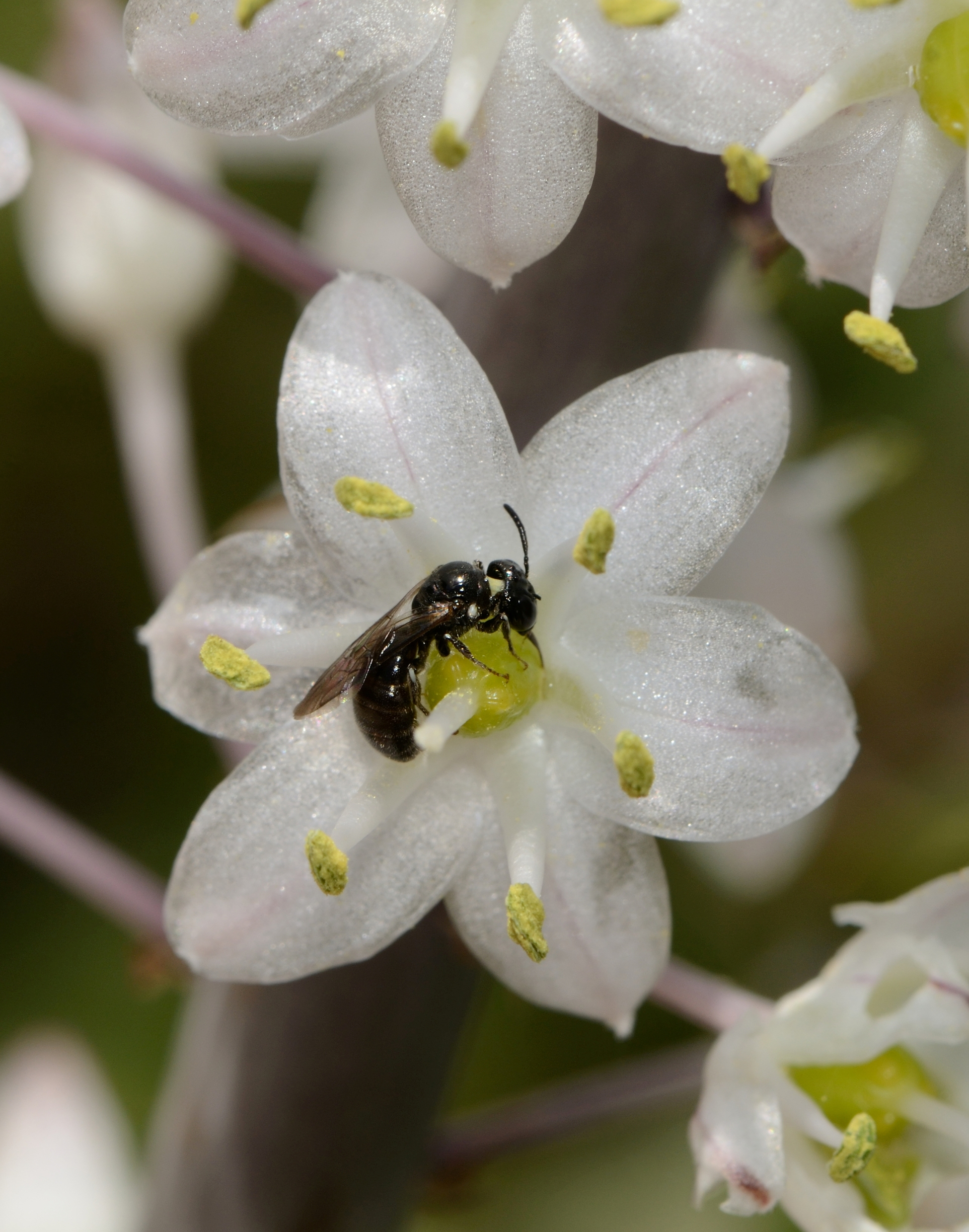 Ceratina cucurbitina, male collecting nectar from Drimia maritima, Mount Carmel, Israel, September 11, 2012. Det. Michaël Terzo 2012.